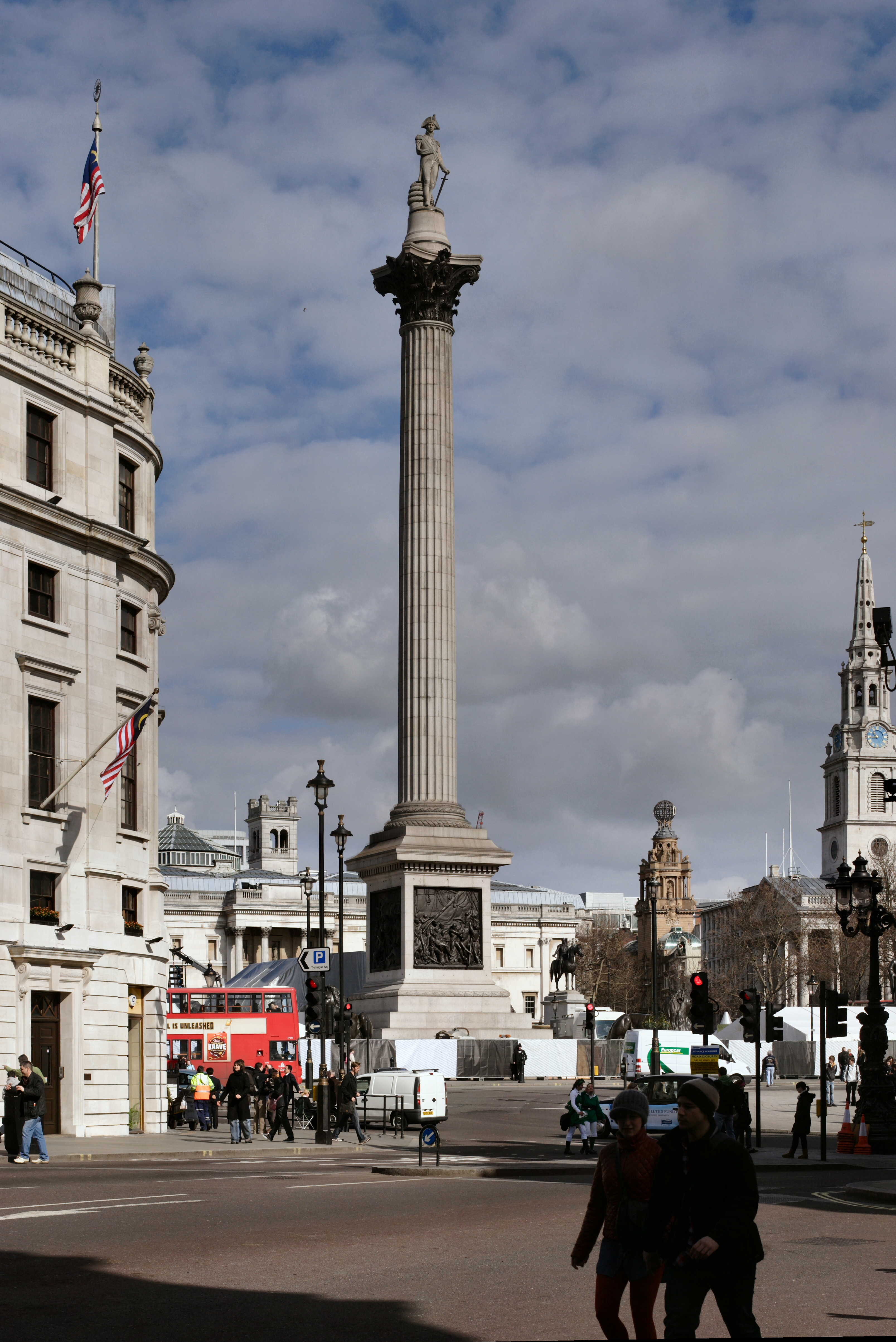 Trafalgar Square